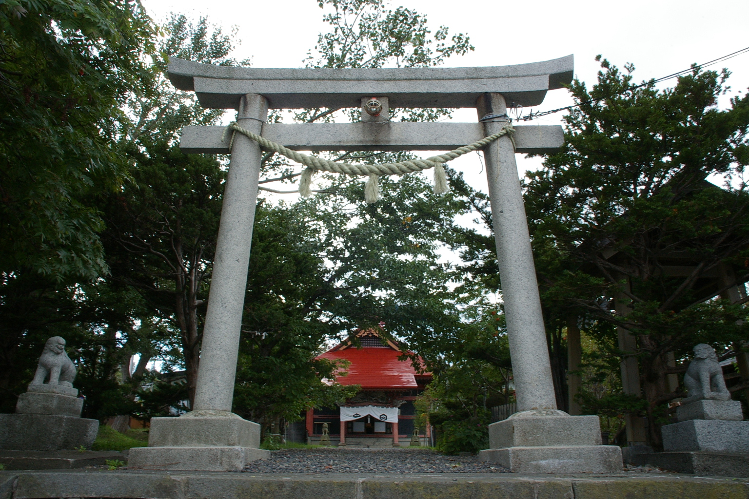 Mashike Itsukushima shrine, Mashike town hokkaido.